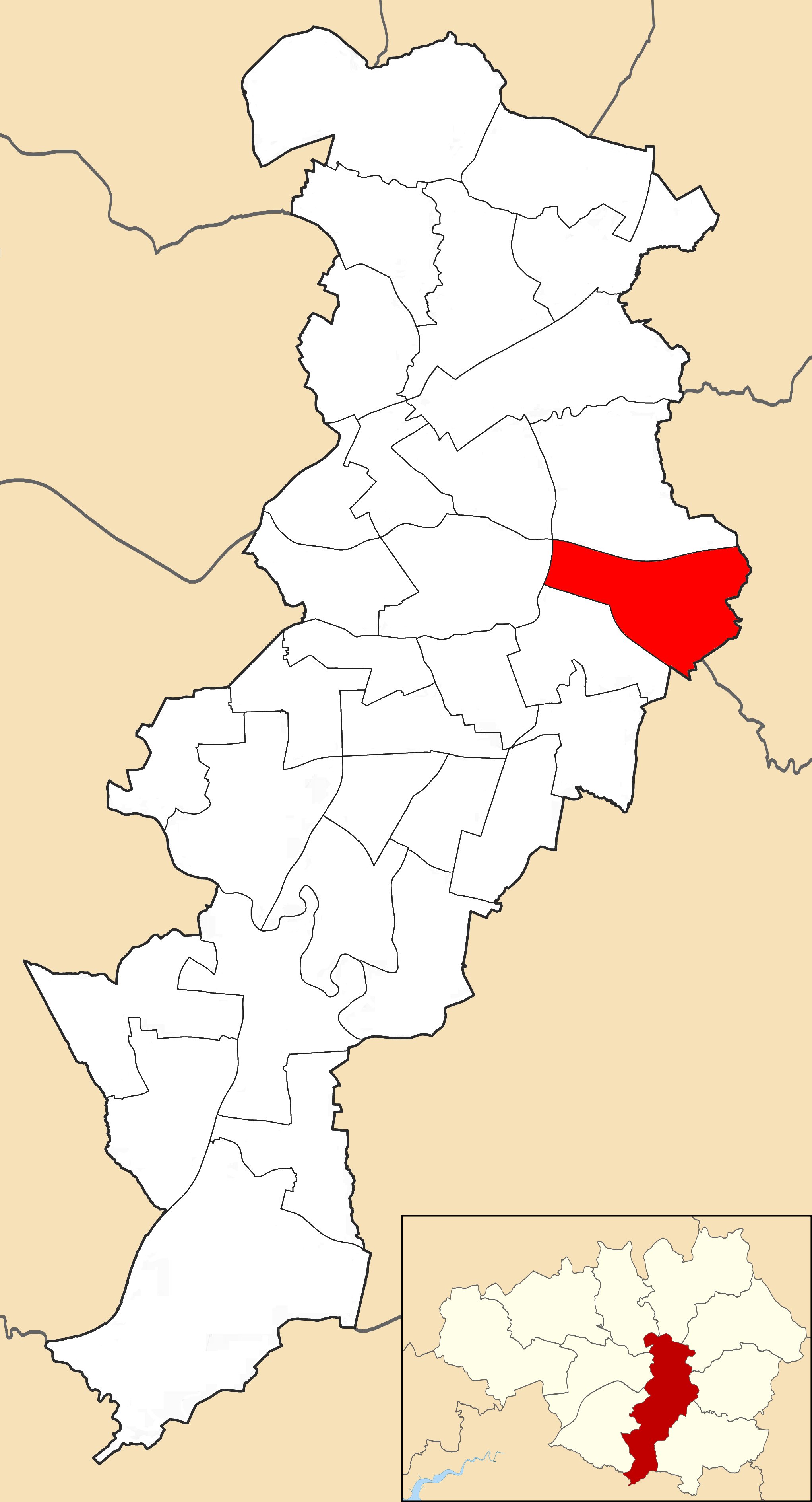 Map showing location of Gorton and Abbey Hey ward within Manchester City Council.